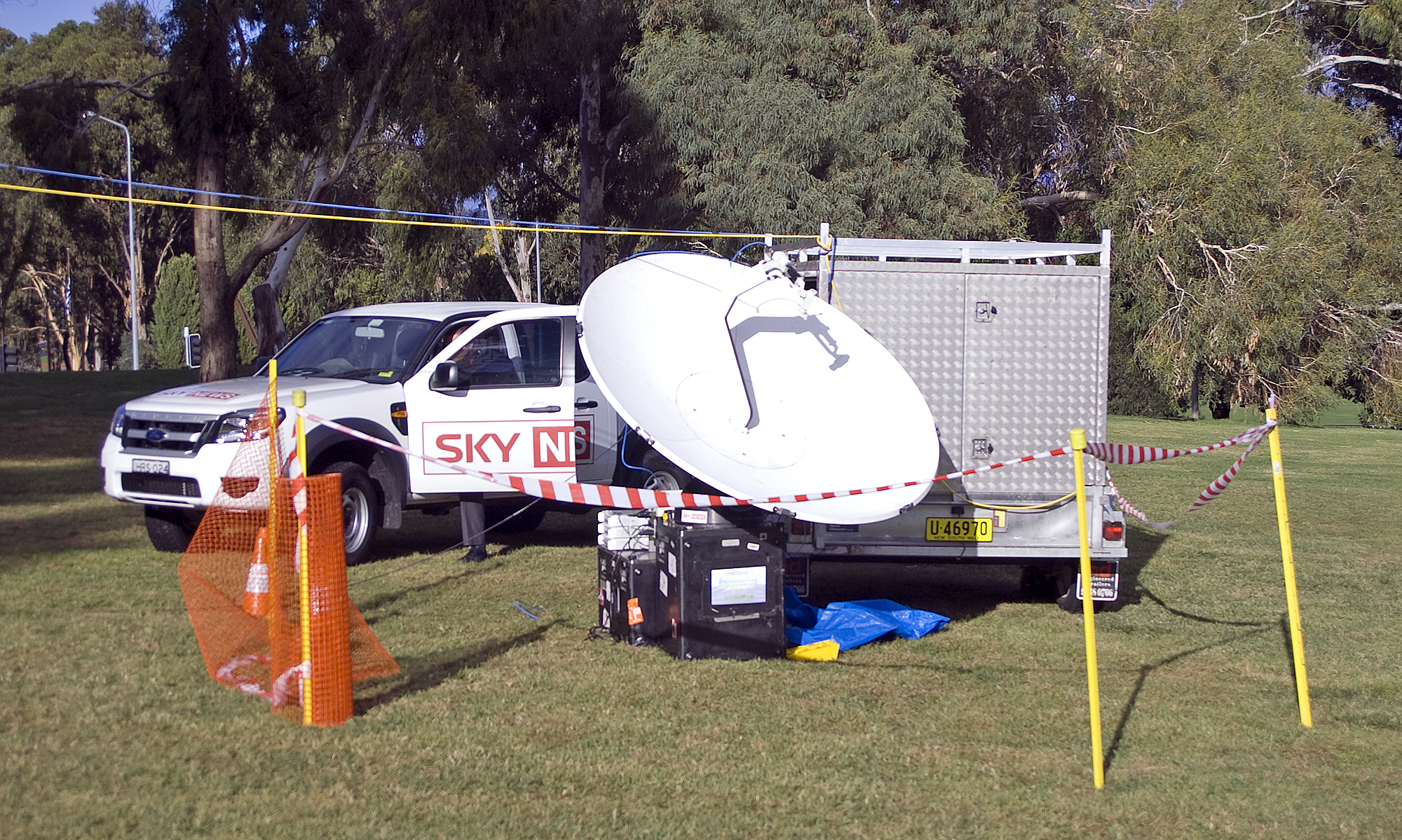 Sky News Australia outside broadcast equipment at the Australian War Memorial.